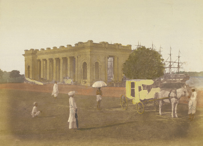 "Princep's Ghaut, Calcutta," (Princep is misspelled in the original), hand-coloured photographic print by Frederick Fiebig. Dated 1851. Courtesy of the British Library, London.